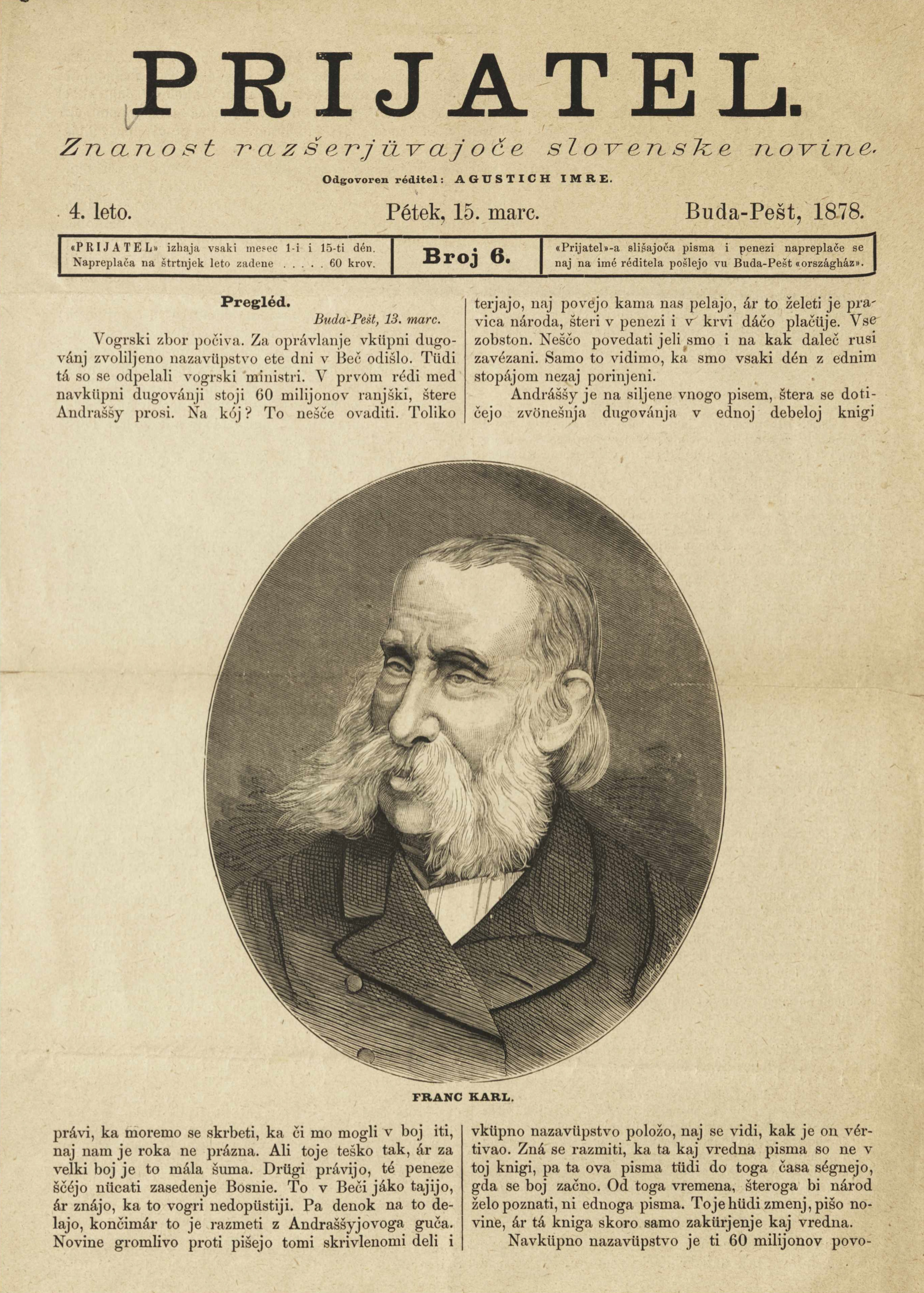 Prekmurian newspaper Prijátel (Friend), by Imre Augustich